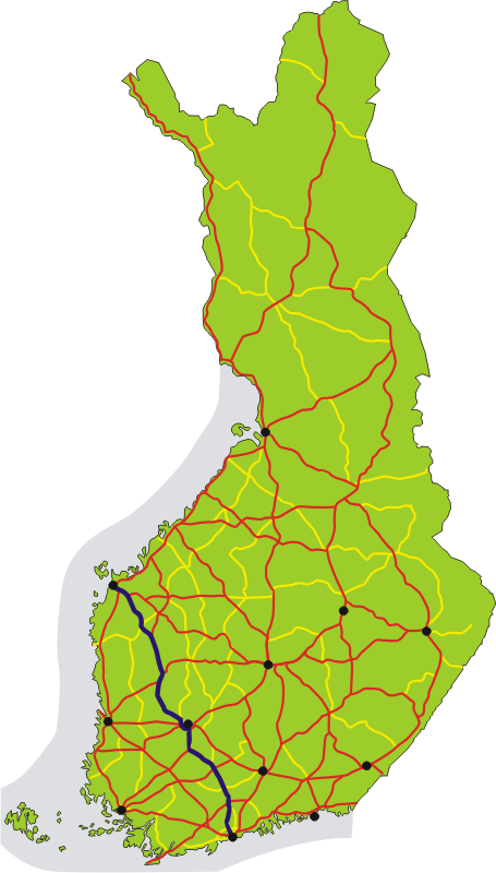 Map of the main road 3 in Finland, shown in dark blue. The other 1st class main roads (numbers 1–29) are red, 2nd class main roads (numbers 40–98) yellow. Black dots show the 12 biggest urban areas.